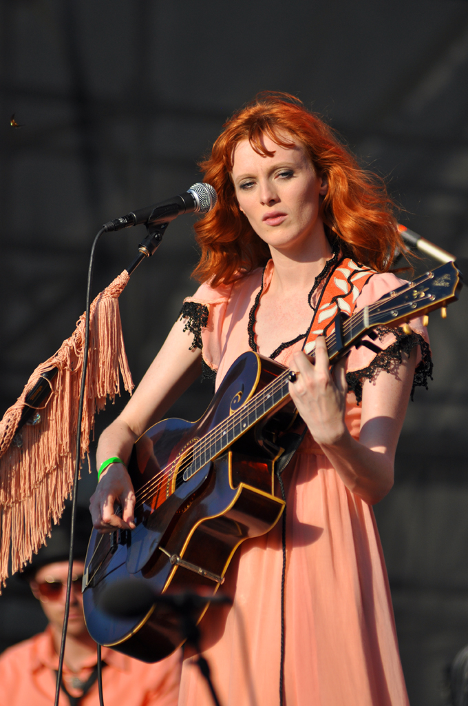 Karen Elson at the Williamsburg Waterfront, Brooklyn